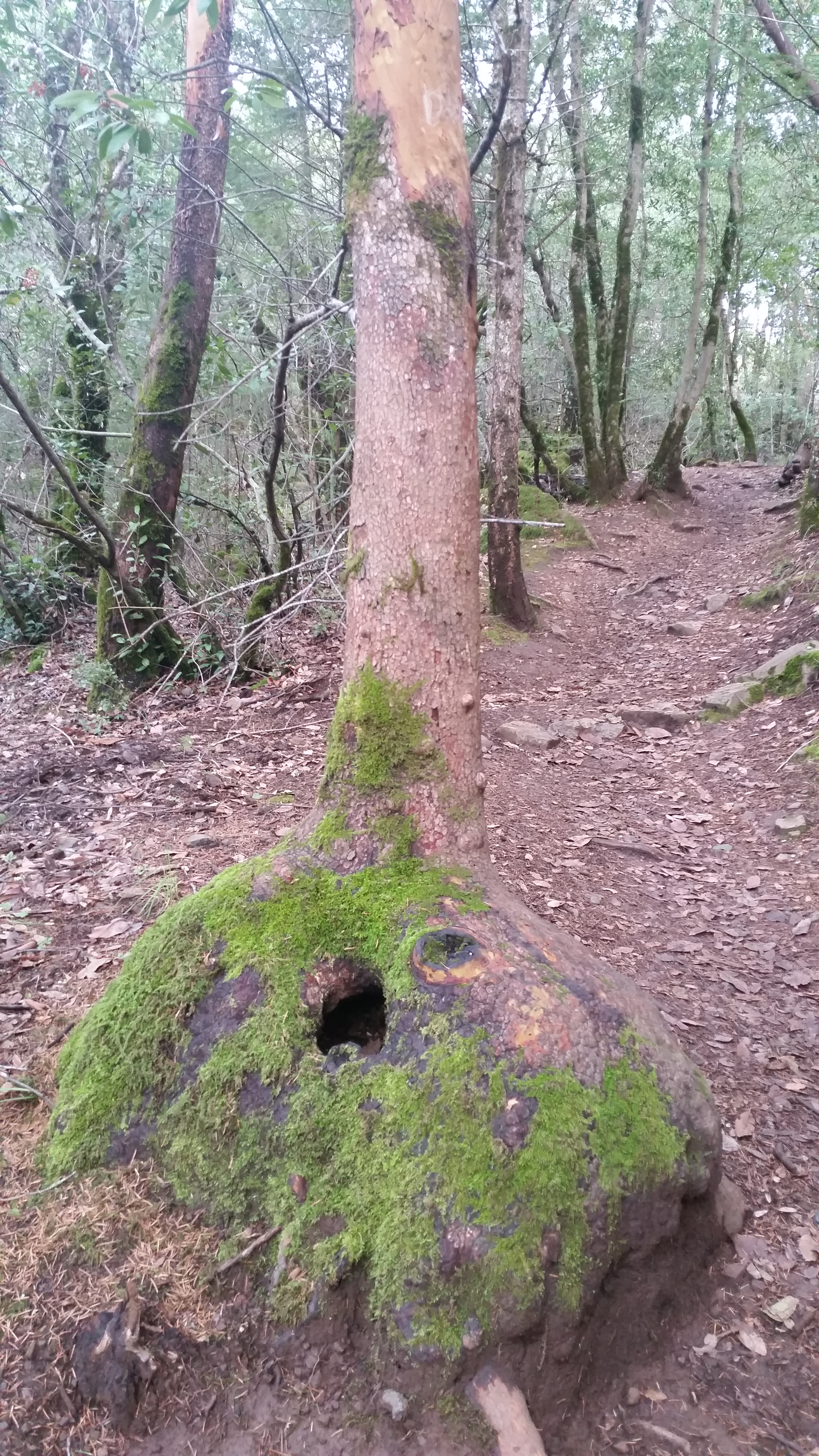 Lignotuber at the base of a Madrone (Arbutus menziesii) in Sugarloaf Ridge California State Park